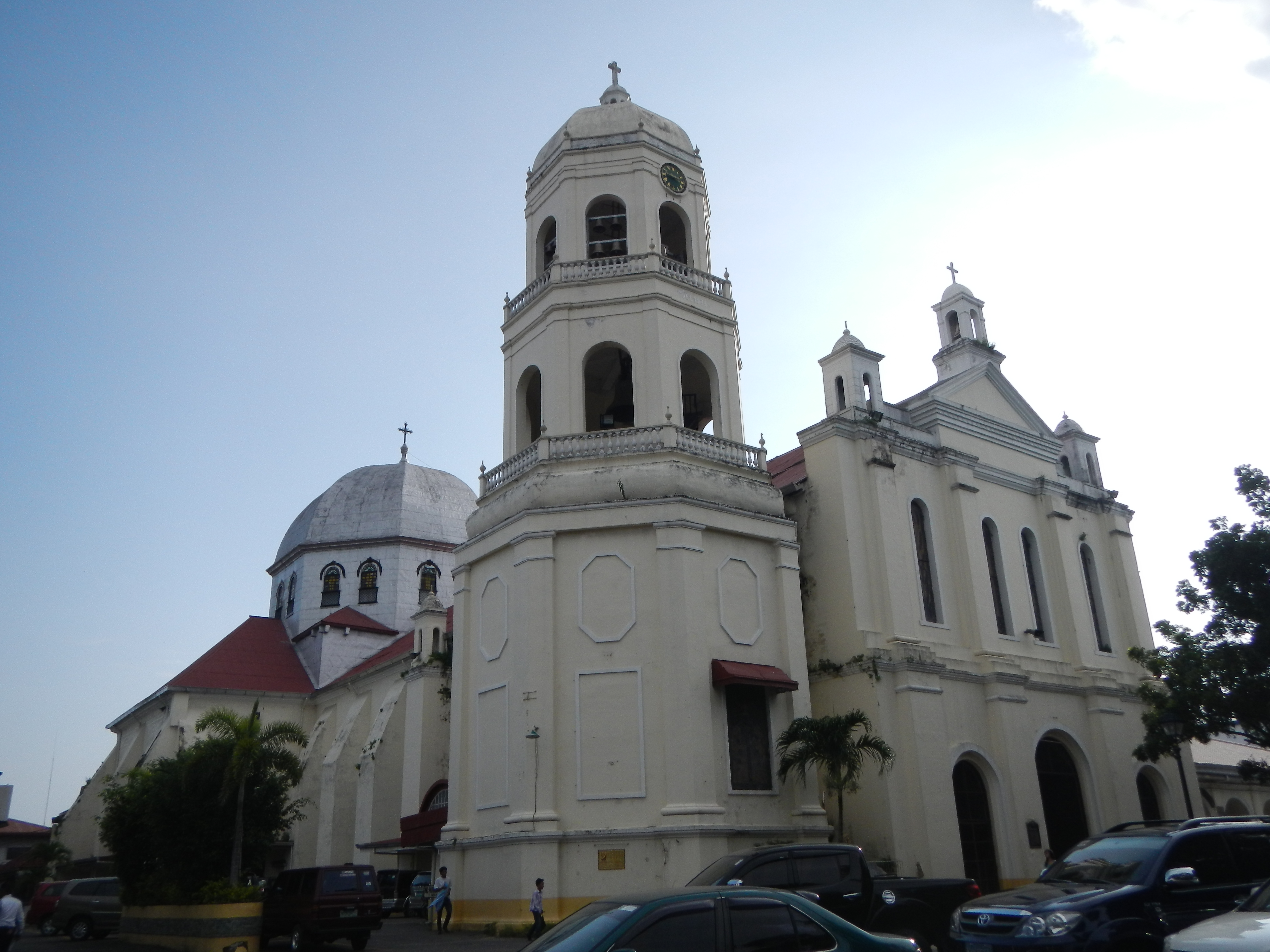 Upload Wizard -- (general description of landmarkds, town, church, bad weather, going to dark, sunset conditions) - of - Basilica Minore of the Infant Jesus and Immaculate Conception of Batangas City[1] (the largest and capital city of the Province of Batangas, [2] the "Industrial Port City of Calabarzon", 2010 census, population of 305,607 people) - Minor Basilica of the Immaculate Conception was built in 1581 with improvised materials- List of basilicas [3] Coordinates: 13°45'14"N 121°3'33"E[4] belongs to the Roman Catholic Archdiocese of Lipa[5] Vicariate III: Vicariate of the Immaculate Conception Minor Basilica of the Immaculate Conception - [6] Immaculate Conception Minor Basilica, baroque-styled basilica erected in 1857 under Fr. Pedro Cuesta, declared a Minor Basilica by Pope Pius XII on February 13, 1945, first basilica, houses the original Sto. Niño ng Batangan, a miraculous statue of the Infant Jesus; [7] [8] [9] The Twelve Minor Basilicas in the Philippines [10] [11] - and crossing, junction, Highway going to the SLEX, Star Tollway.